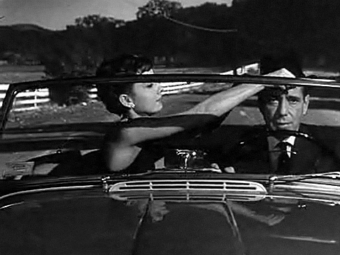 Screenshot of Audrey Hepburn and Humphrey Bogart from the trailer for the film Sabrina (1954 film)